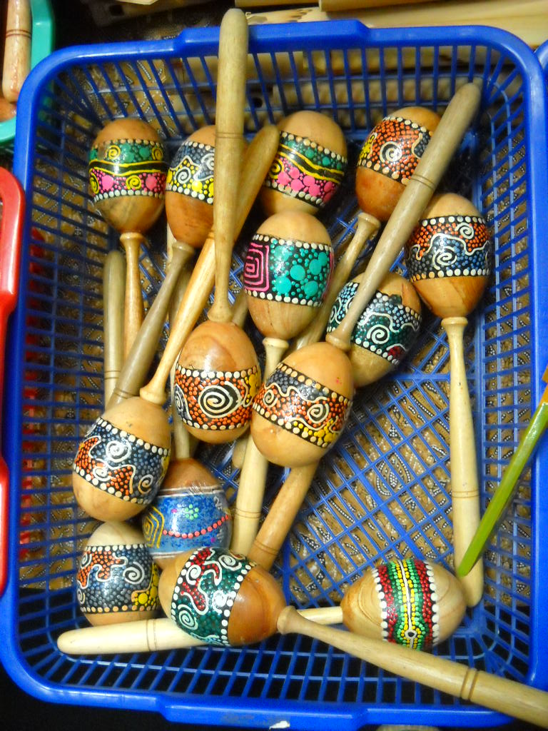 Maracas sold in a market, Jakarta, Indonesia.